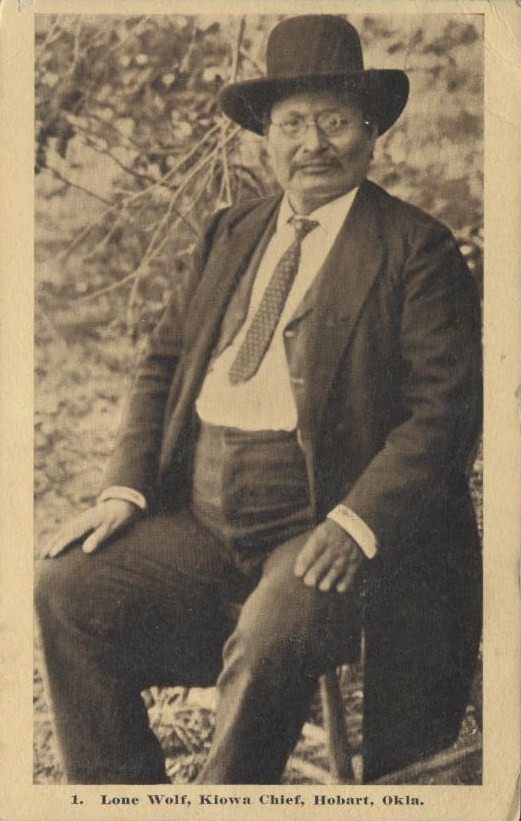 Postcard picture of Lone Wolf, Kiowa Indian Chief, in Hobart, Oklahoma, about 1897